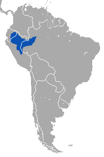 Silvery Woolly Monkey (Lagothrix poeppigii) range